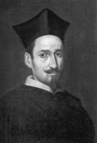 Cardinal Fabio Chigi, future Pope Alexander VII